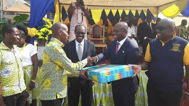 POJOSS 58th anniversary.